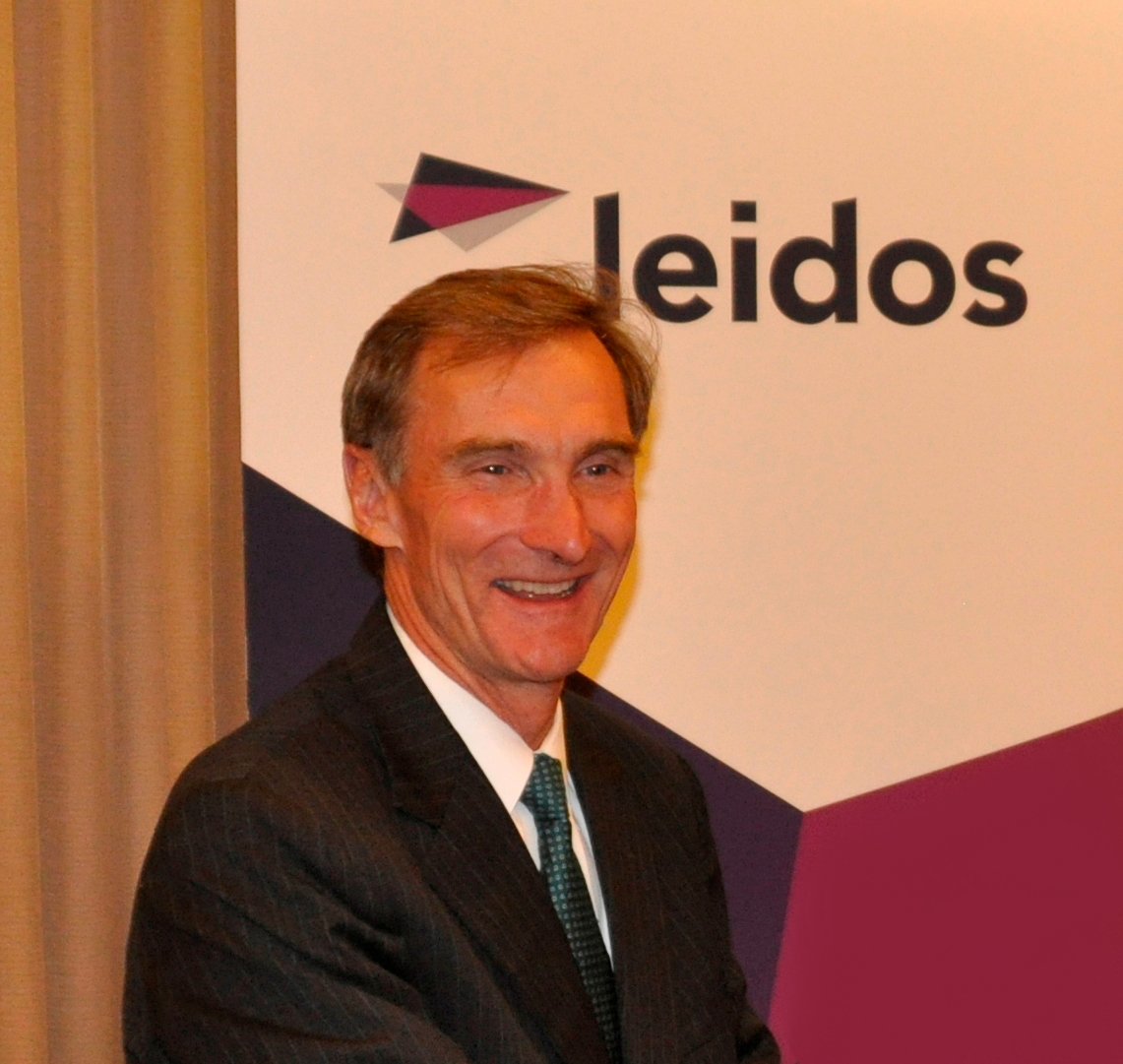 Roger Krone at Leidos event.